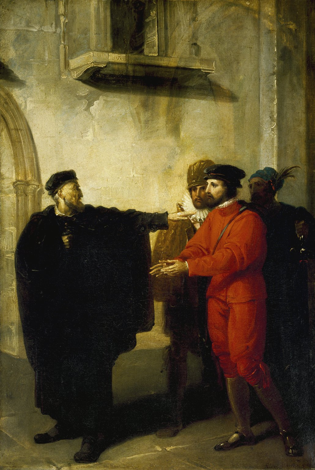 From Act III, Scene 3 of William Shakespeare's The Merchant of Venice